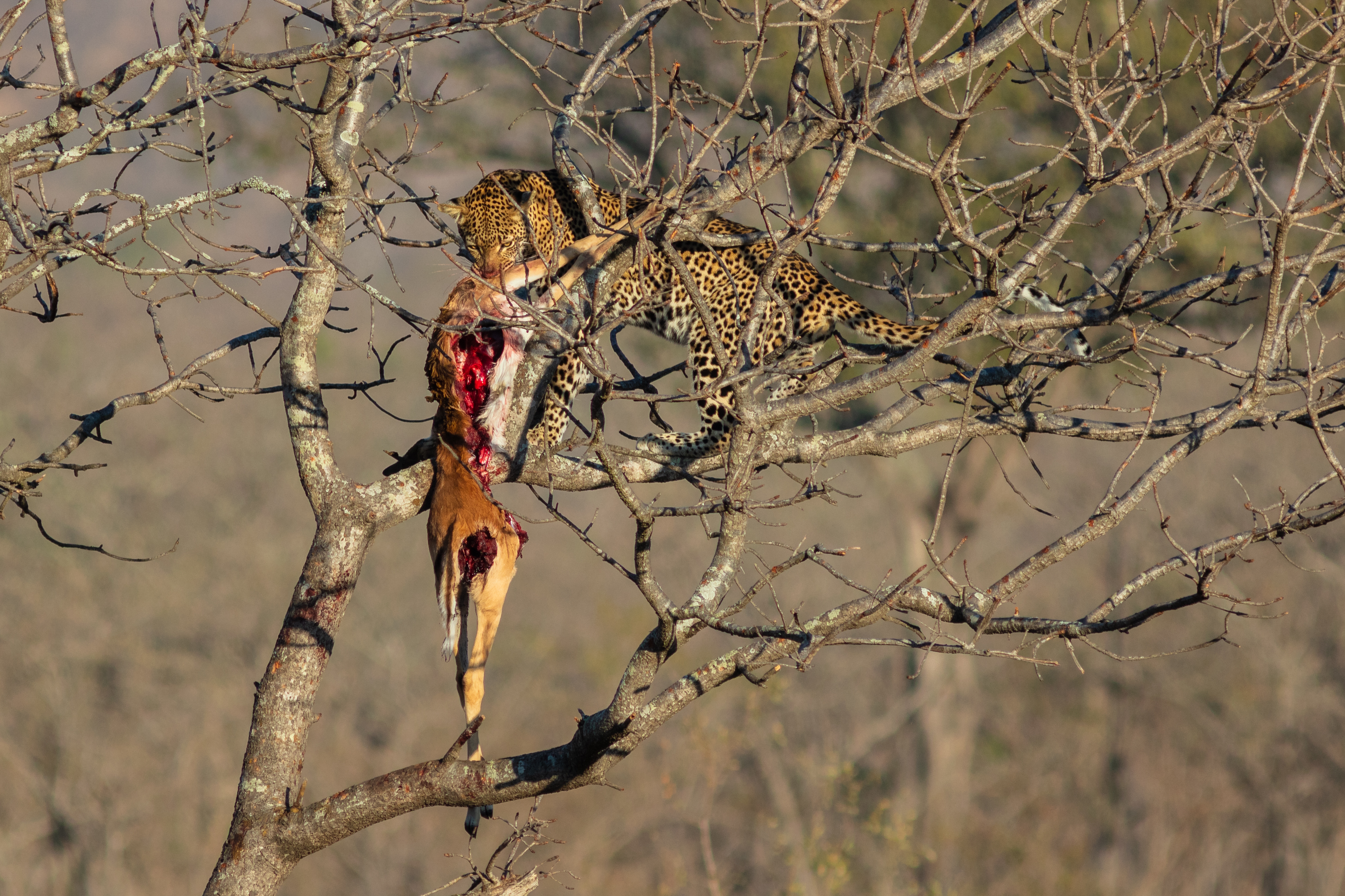 Leopard (Panthera pardus) devouring an antilope, Kruger National Park, South Africa